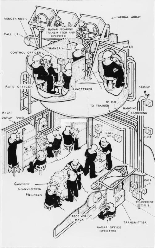 Radar and Electronic Warfare 1939-1945 Naval Radar: Diagram to illustrate the chain of command in High Angle Fire Control. Signals are picked up by the aerial array. The Radar operator (bottom) sees the 'echo' and transmits its range to the gunnery calculating position. The Layer and Trainer in the gun director transmit to the gunnery calculating position the bearing of the target. If the target cannot be seen the Radar display panel (left) is used to provide a radar bearing and the guns are thus able to fire 'blind'. The remainder of the crew are members of the gunnery team.